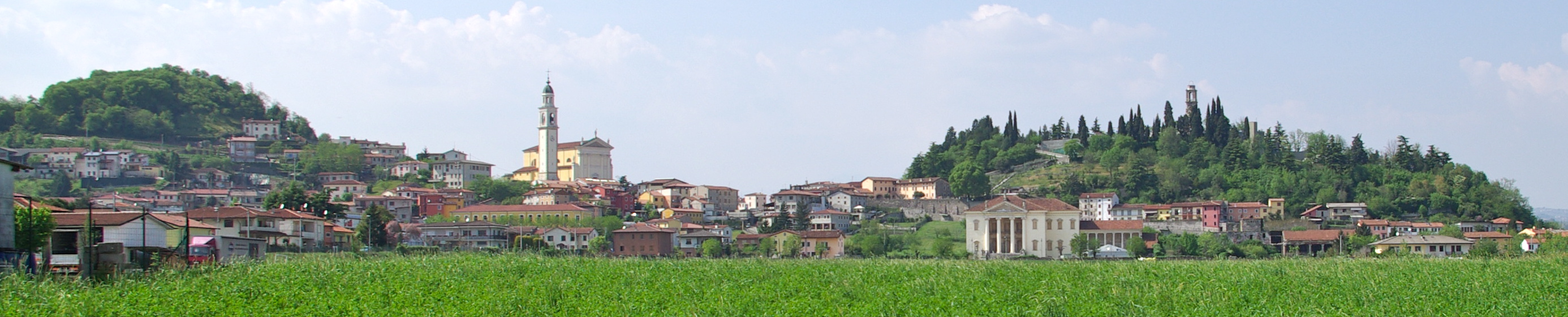 Panorama di Montorso Vicentino